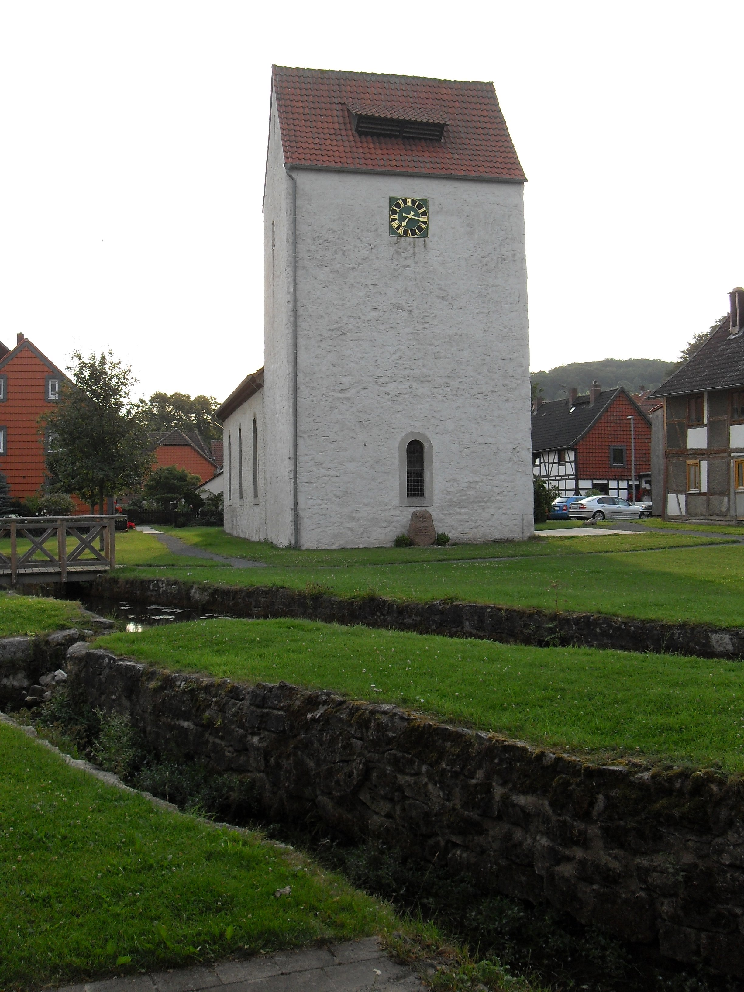 Protestan church in Erkerode Lower Saxony, Germany